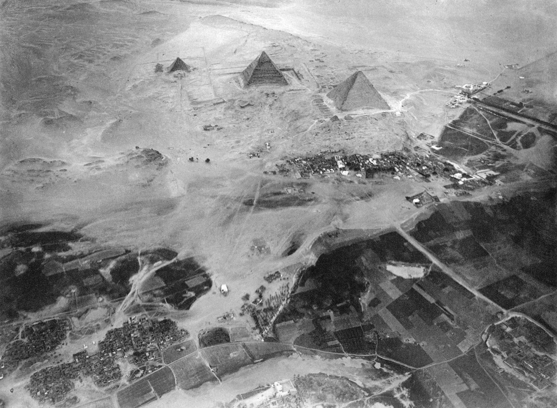 Pyramids of Gizah, Egypt. From left to right: Menkaure, Kephren, Cheops. Photographed from a balloon from about 600 metres above ground.